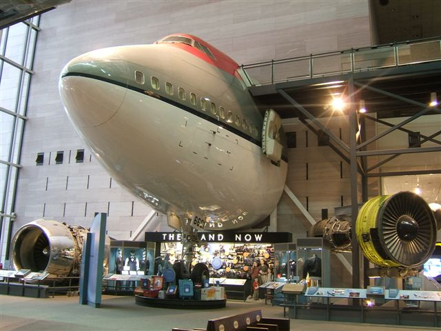 First 747 purchased by Northwest Airlines. Aircraft now on display at NASM in Washington DC. Aircraft was flown into Charlotte Aircraft Corp.'s facility at Laurinburg-Maxton airport in Maxton NC, and then the nose was cut off and trucked to DC.